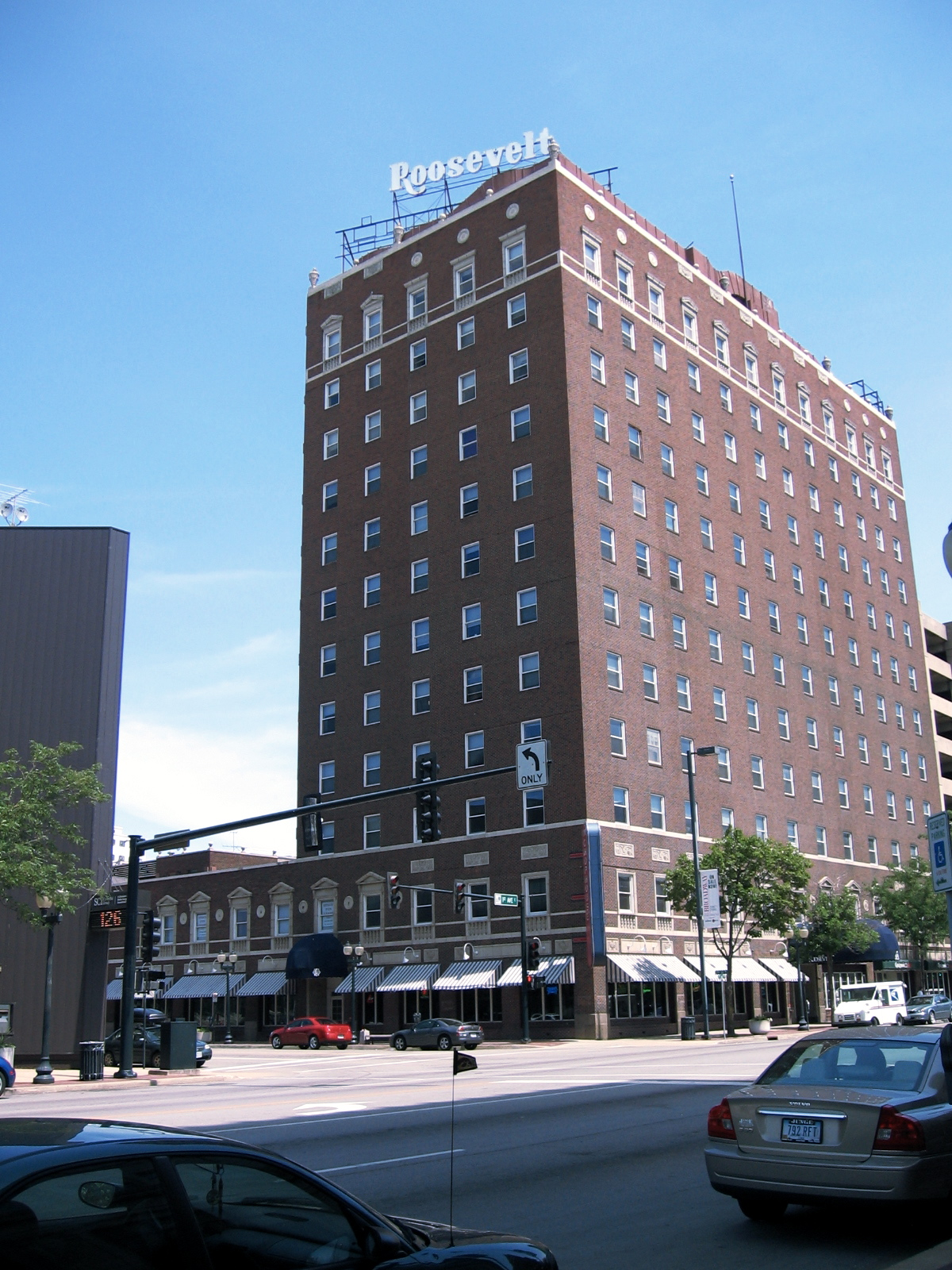 The Roosevelt Hotel in Downtown Cedar Rapids. The 12-story Roosevelt, built in 1927, has been on the National Register of Historic Places since 1991.